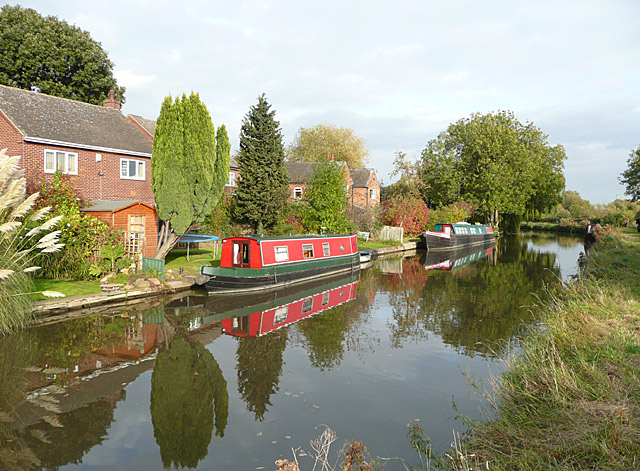 Canal-side housing at Shardlow, Derbyshire. Although the end of the canal is another half a mile further ahead at Derwent Mouth, all distance measurements for this 93.5 mile waterway from Preston Brook are calculated from Shardlow.